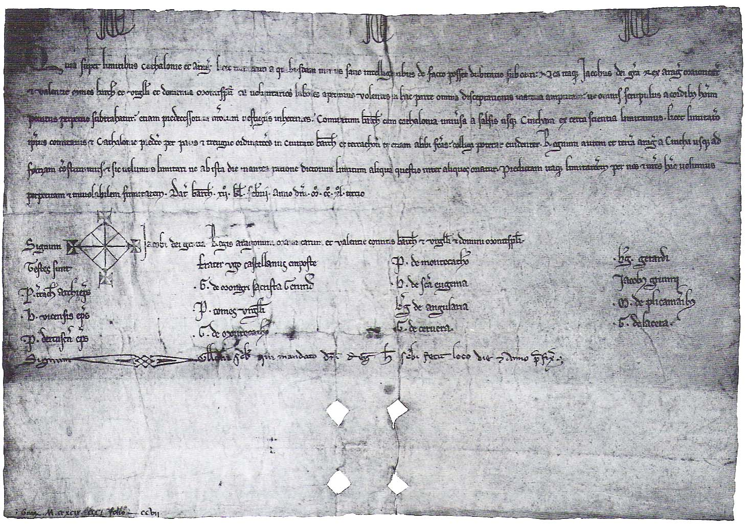 Manuscript dated 1243 by which King James I of Aragon, officially fixes the existing territorial limits between Catalonia and Aragon.